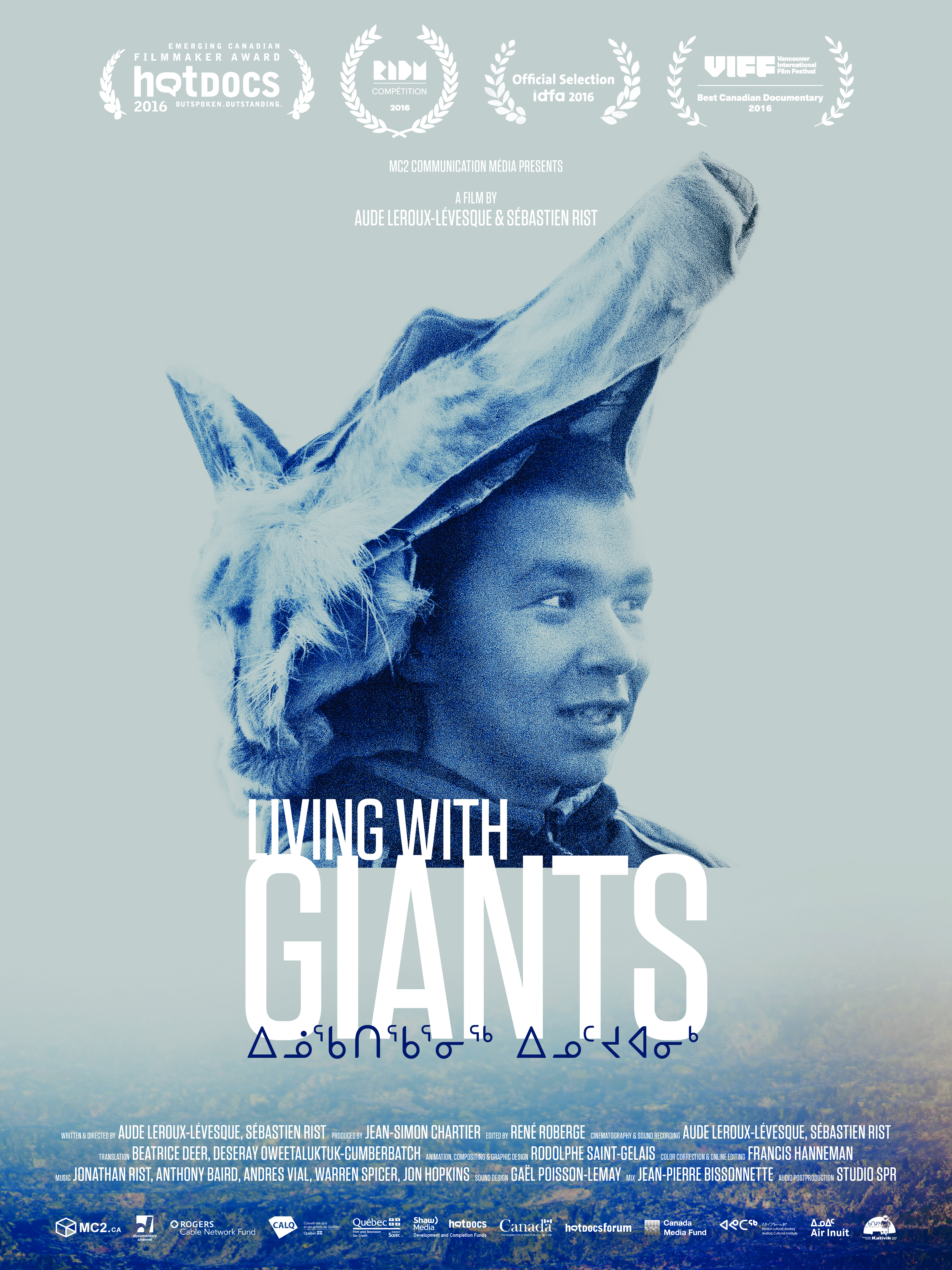 2016 documentary film poster for Living With Giants